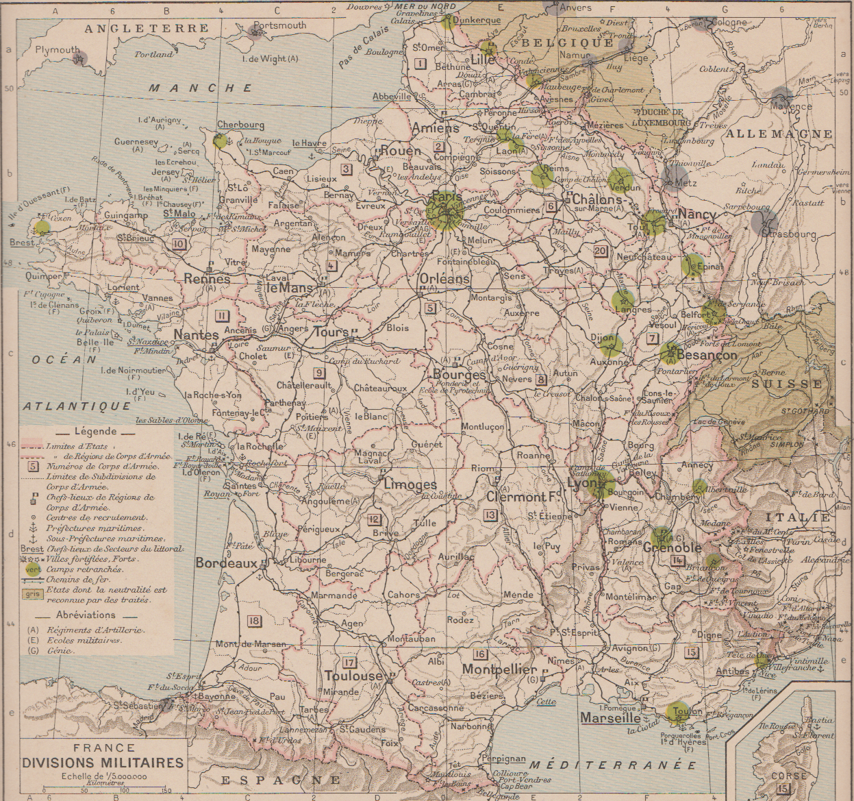 Map of the french military organization in 1907